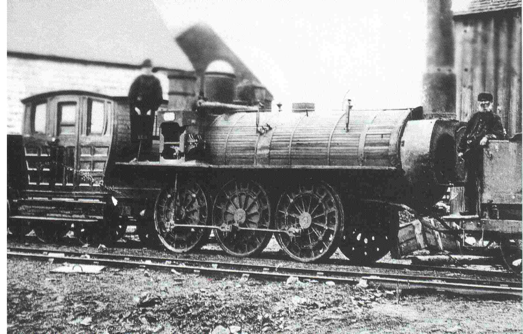 Postcard of "the Samson" on the Albion Mines Railway in Nova Scotia, a locomotive designed by Peter Crerar.